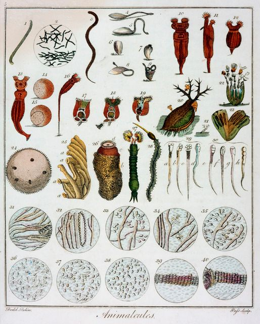 'Animalcules' observed by Anton van Leeuwenhoek, c1795.